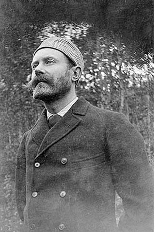 Photo of Swedish painter Karl Nordström, ca 1890. (Nationalmuseum, Stockholm)